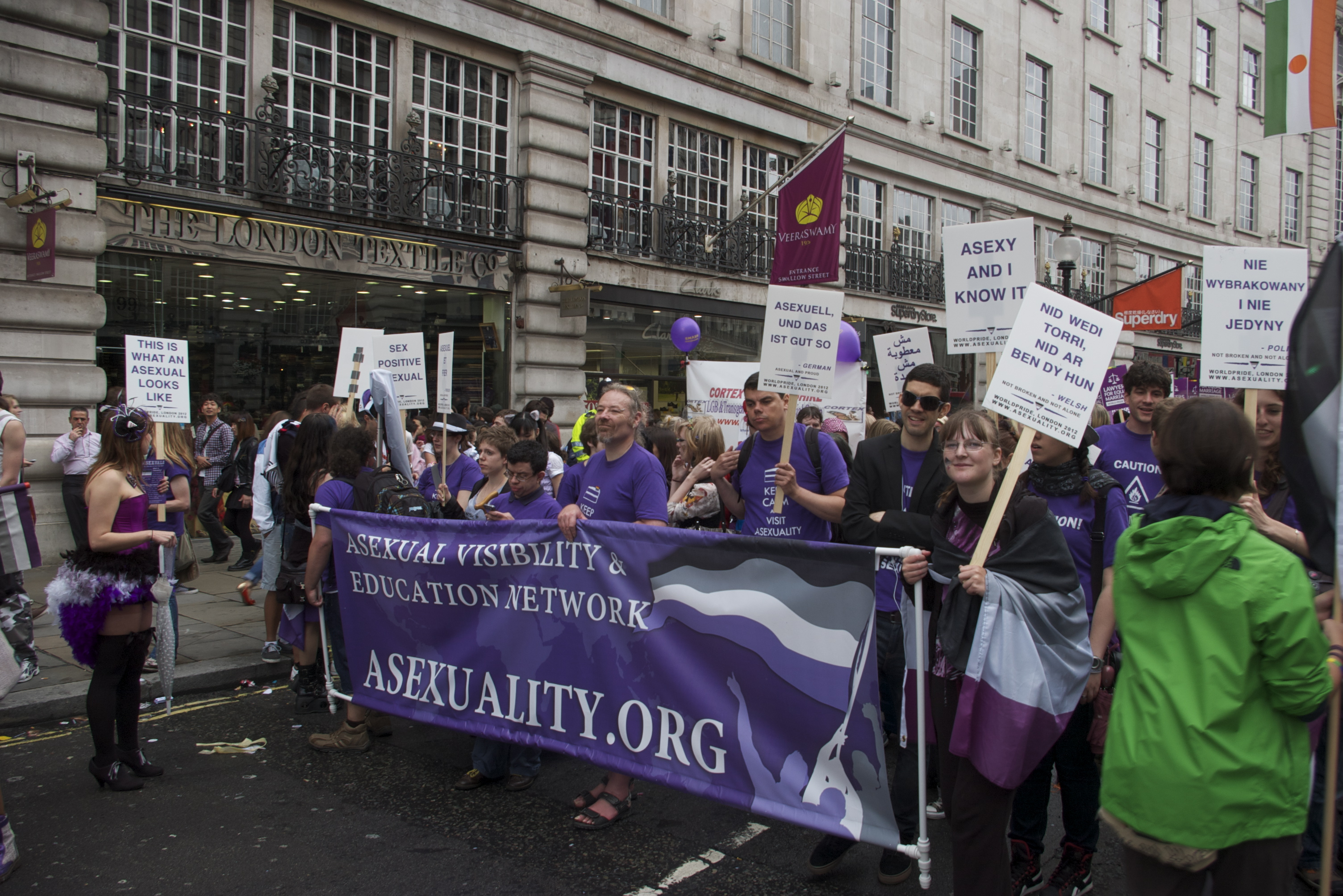 Asexuals marching down Regent Street at Pride London/WorldPride 2012.